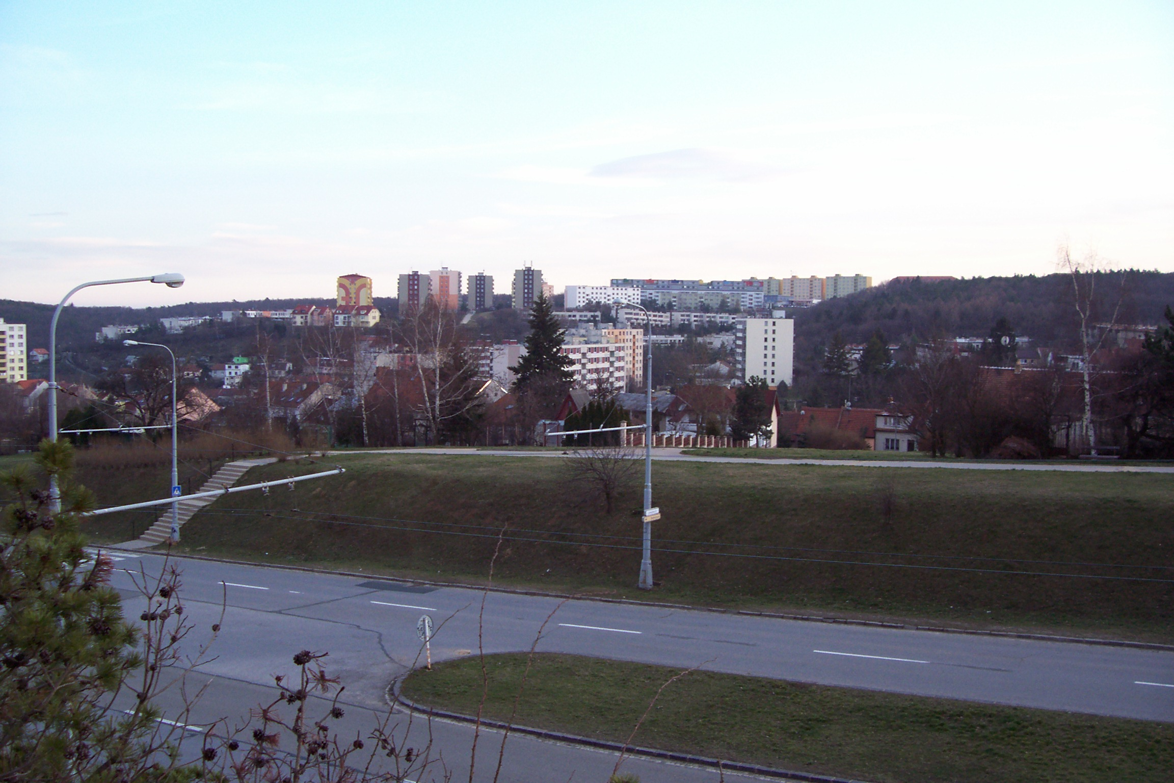 Global view to central and southern part of Brno-Kohoutovice